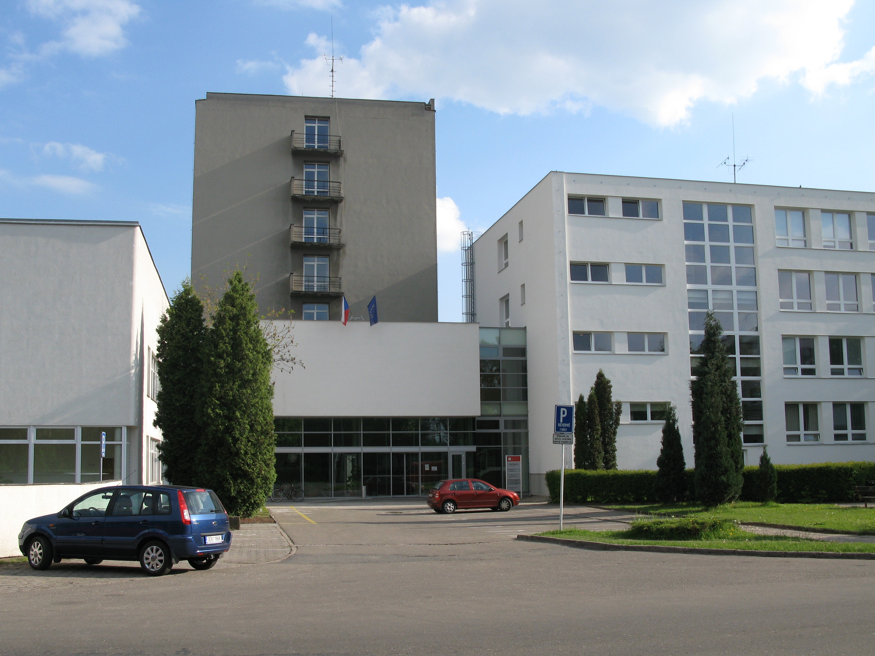 The main building of Transport faculty